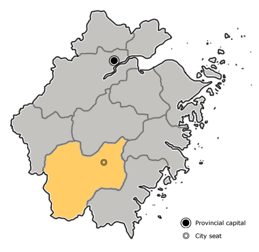 The prefecture-level city of Lishui is highlighted on this map of Zhejiang province, People's Republic of China.